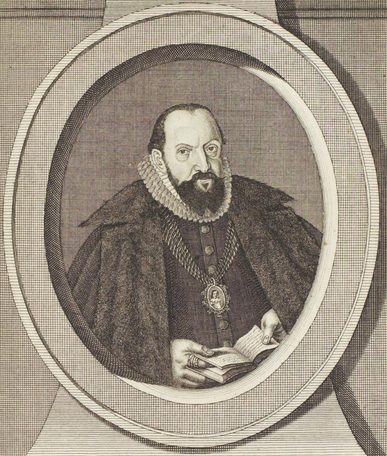 Engraved portrait of Ernst Cothmann, in: in: Monumenta inedita rerum Germanicarum praecipue Cimbriacarum et Megapolensium : quibus varia antiquitatum, historiarum, legum iuriumque Germaniae, speciatim Holsatiae et Megapoleos vicinarumque regionum argumenta illustrantur, supplentur et stabiliuntur ; cum tabulis aeri incisis / e codicibus ... studuit ... et cum praefatione instruxit Ernestus Joachimus de Westphalen .. Band 3, Lipsiae: Martin 1741